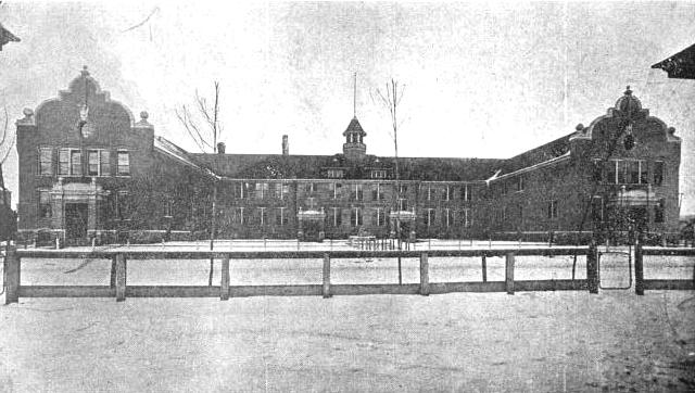 Central School — Iron River, Michigan (c. 1919).